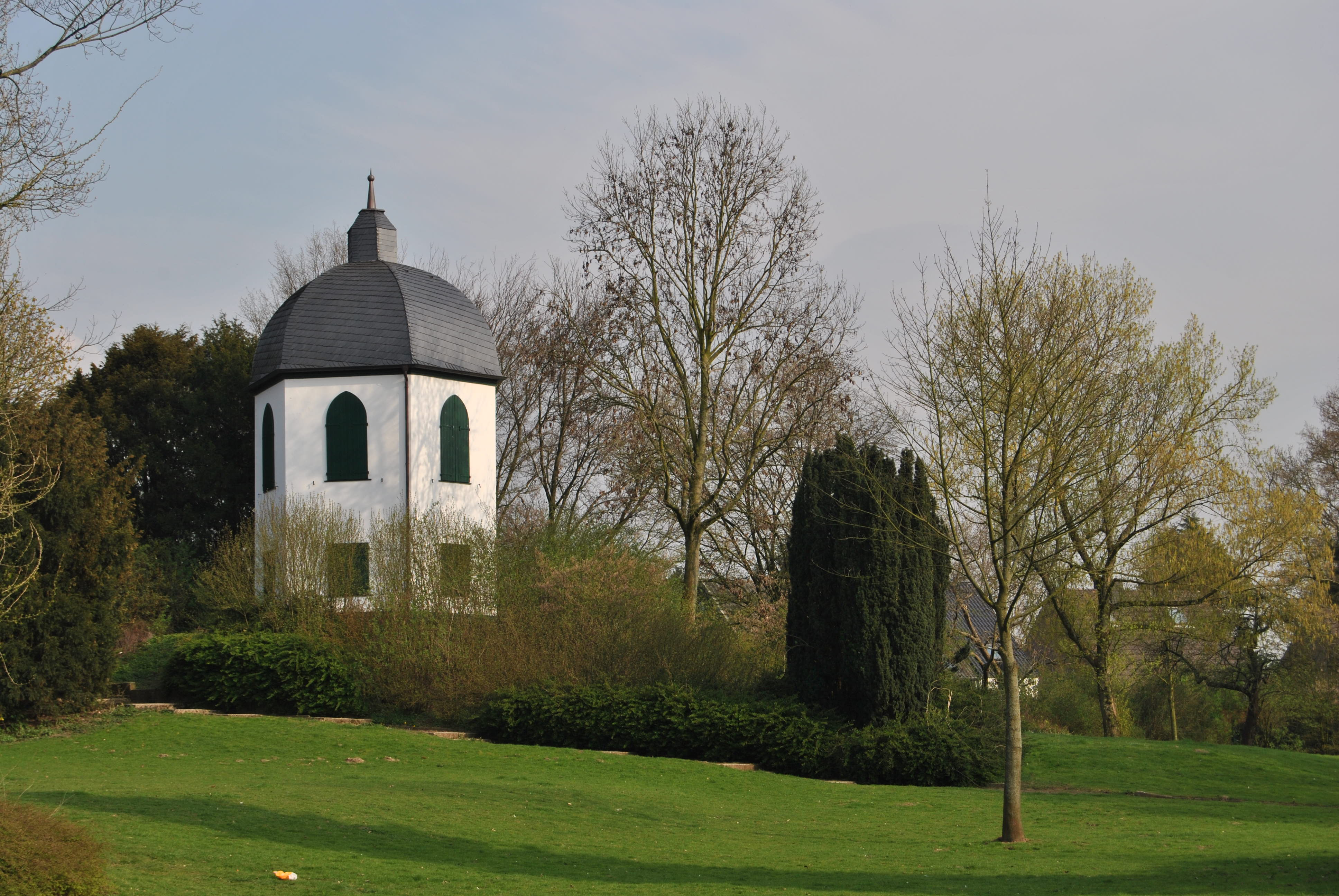 Rheinberg (North Rhine-Westphalia, Germany) – city park – Spanischer Vallan This image shows a heritage building in Germany, located in the North Rhine-Westphalian city Rheinberg (no. 18). This photograph was taken with a Nikon D3000.